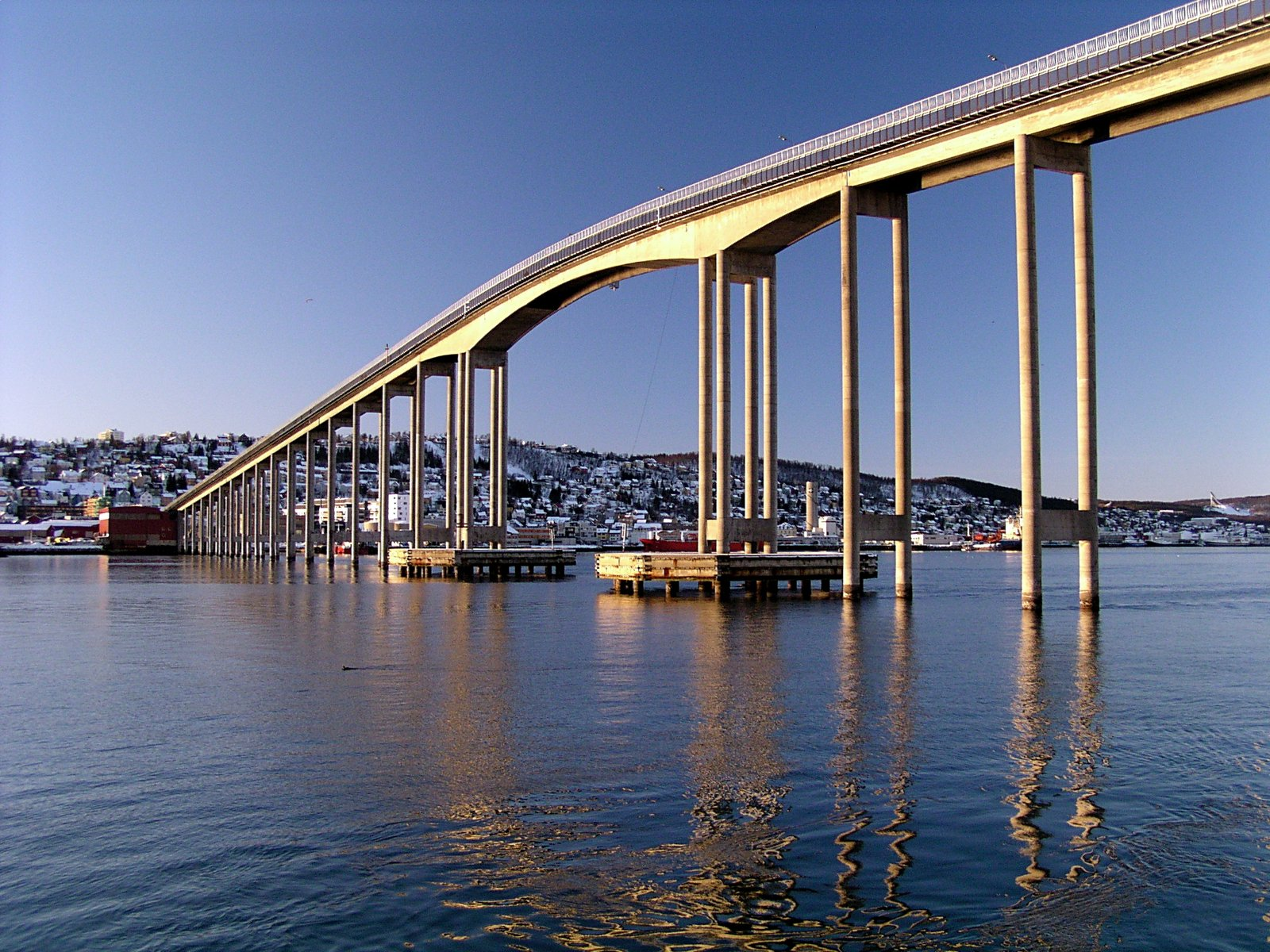 Tromsosund bridge, seen from the mainland towards Tromsø.